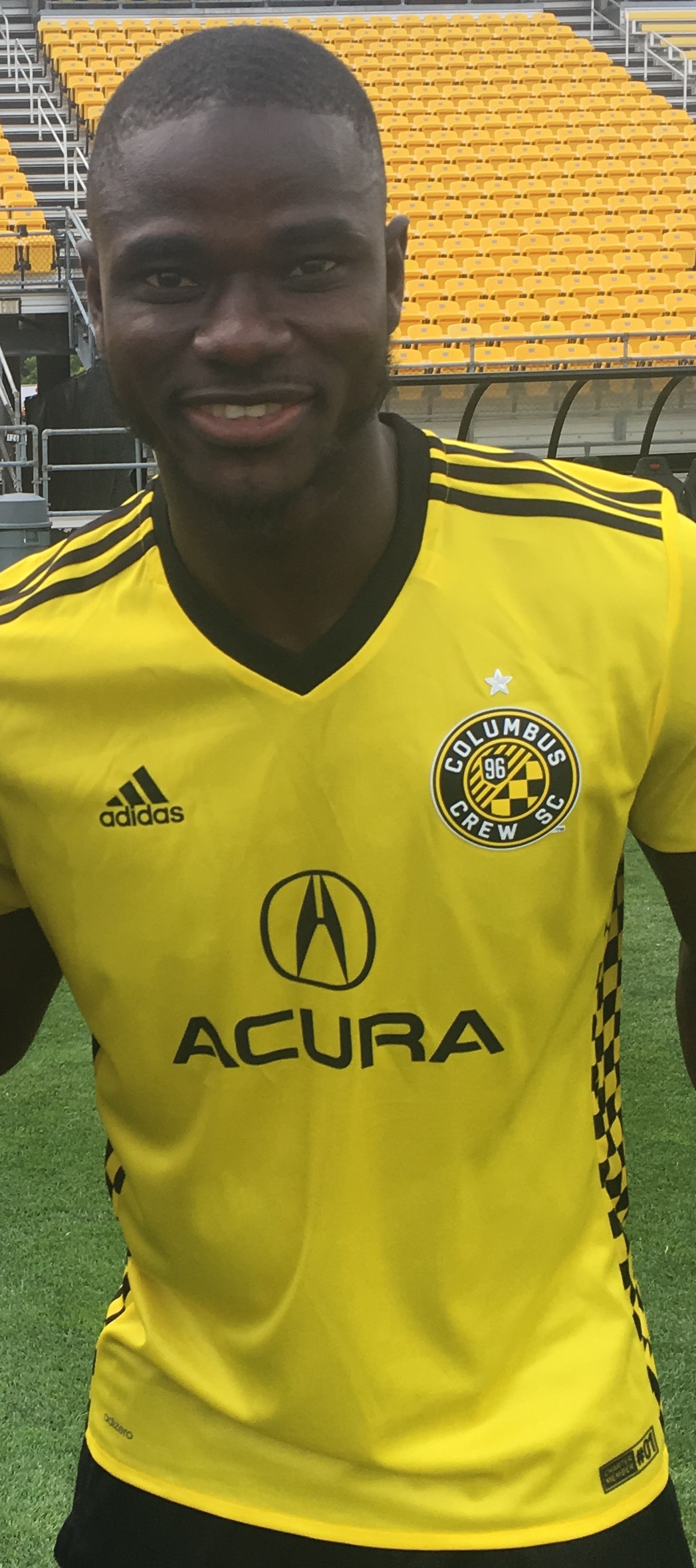 Picture of Jonathan Mensah at a Columbus Crew SC Meet the Team event in 2017.